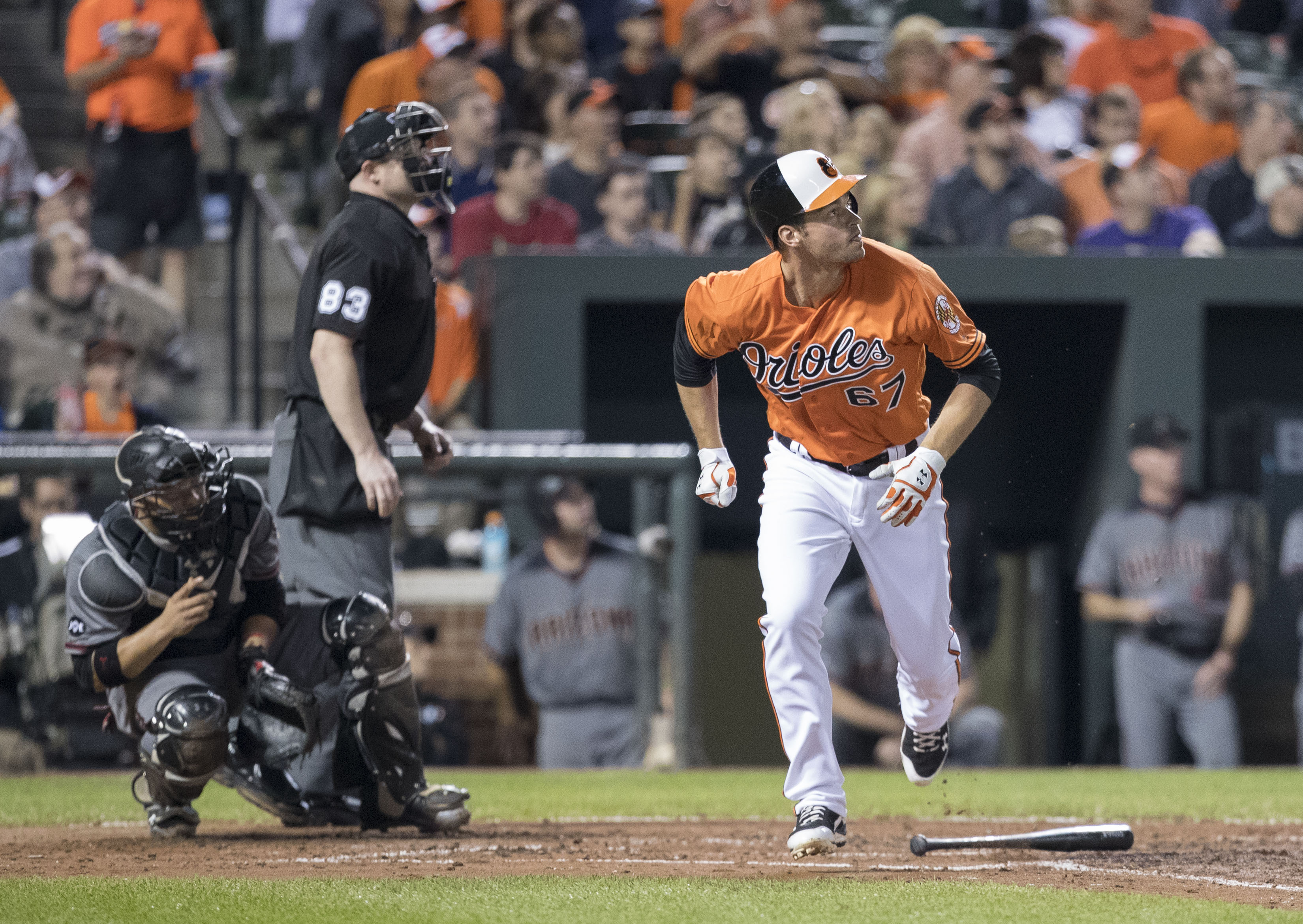 Diamondbacks at Orioles 9/24/16